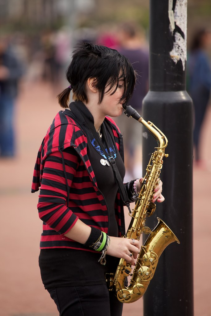 Image of a saxophonist at Big Beach Busk 2011, Portobello